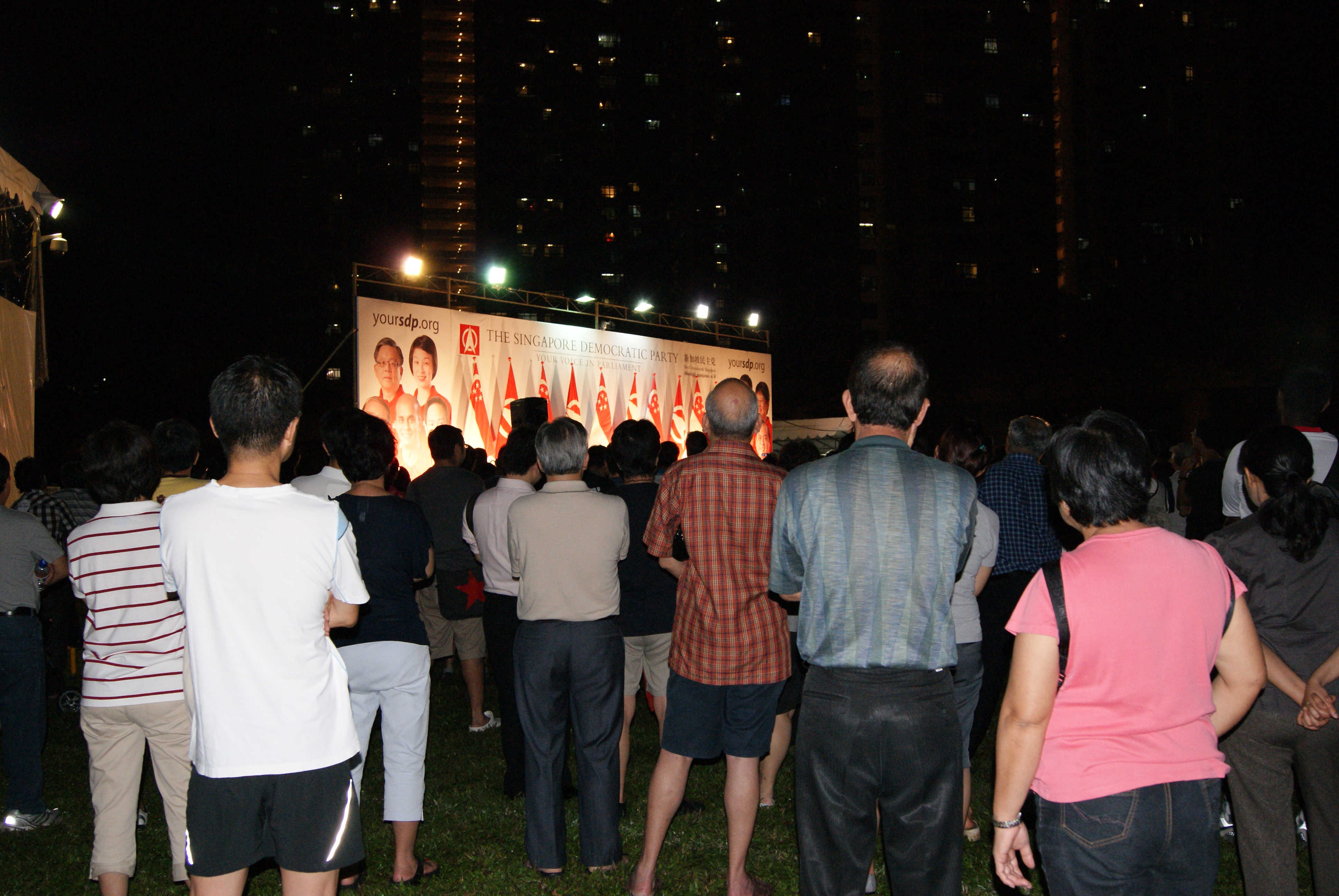 A Singapore Democratic Party rally at Commonwealth for the Singaporean general election, 2011.